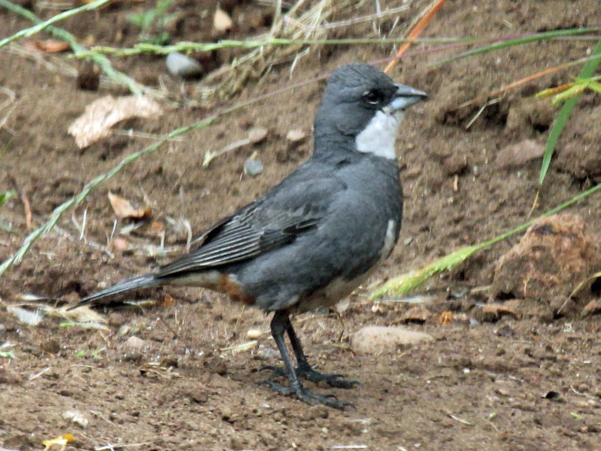 Common Diuca-Finch (Diuca diuca) - Chile